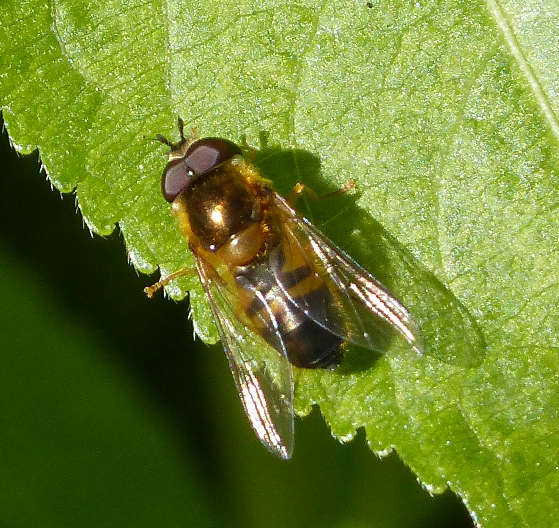 SO 7347. Cradley, Malvern U.K Two seen